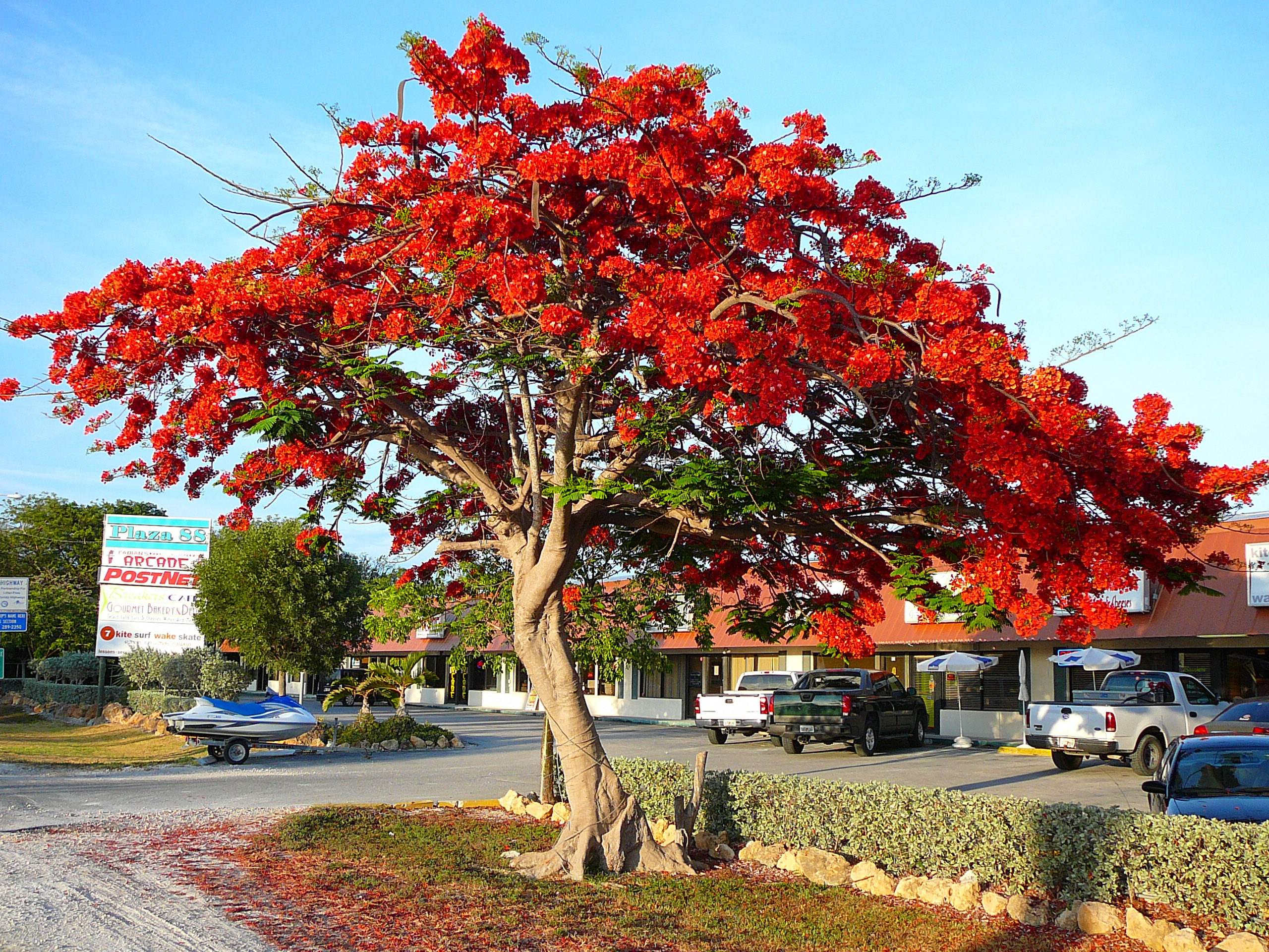 Royal Poinciana (Delonix regia) in full bloom in the Florida Keys